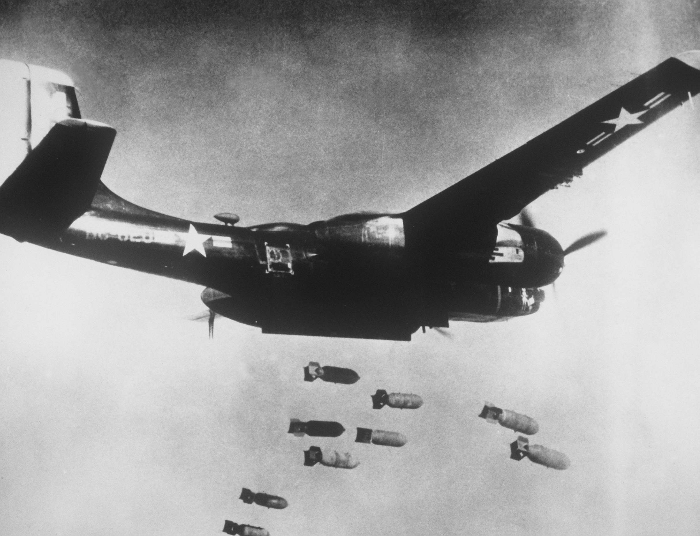 A black painted U.S. Air Force Douglas B-26C Invader dropping bombs during the Korean War in 1953. The Invader was assigned to the 3rd Bomb Wing, 5th Air Force. Original caption: "Fifth Air Force, Korea--A dramatic stop-action photograph shows nine high explosive missiles leaving the bomb bay of a U.S. Air Force 3rd Bomb wing B-26 light bomber over a Communist target in North Korea. The light bombers fly day and night combat missions, attacking key Red military targets including rail and road bridges, communication centers, supply-laden vehicles and troop and supply areas along the battleline. "